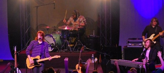 Leeland in concert at the Millennium Youth Center in St. Joseph, Missouri (March 2007).